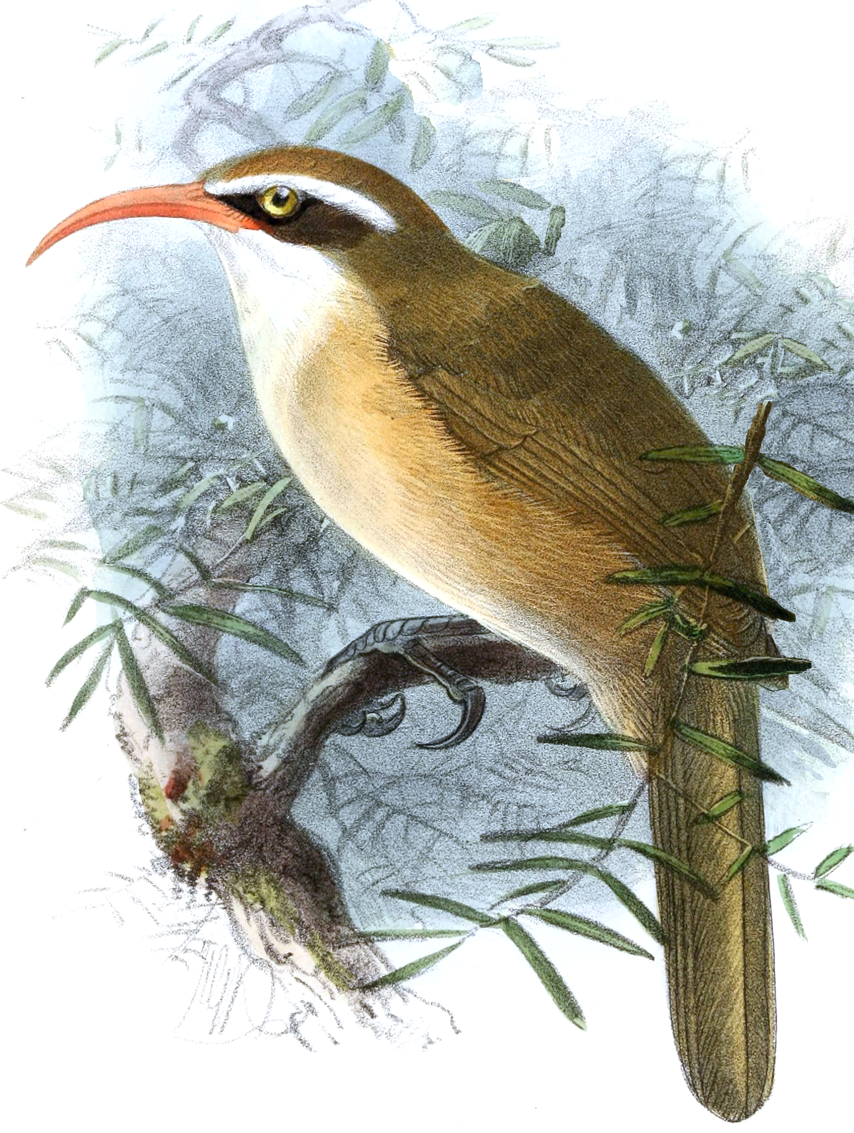 « Pomatorhinus stenorhynchus » = Pomatorhinus ochraceiceps stenorhynchus (Subspecies of Red-billed Scimitar Babbler)